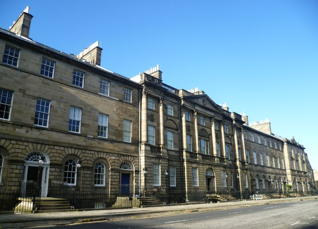 North side of Charlotte Square